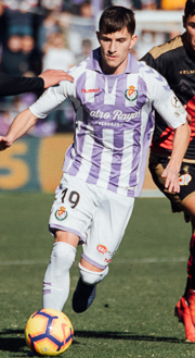 Real Valladolid - Rayo Vallecano, 18th fixture of the 2018-19 La Liga, January 5, 2019.